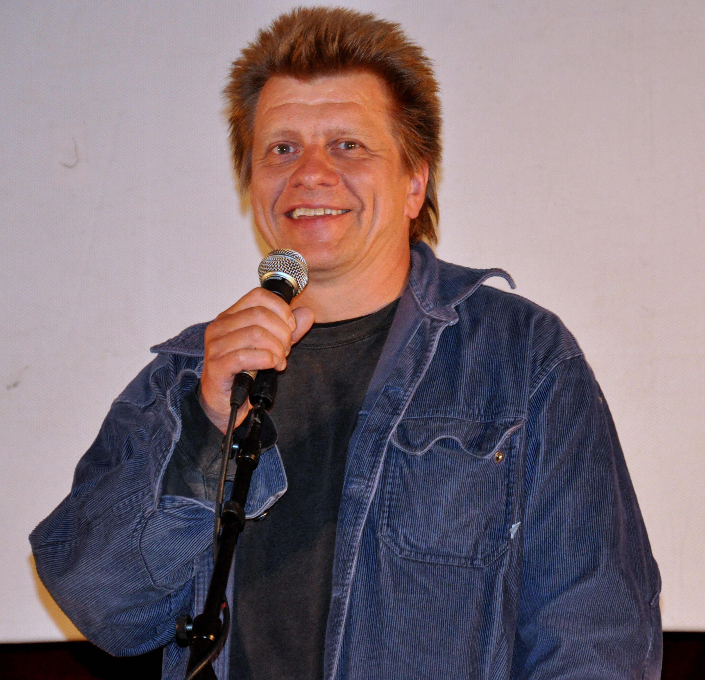 Finnish actor Timo Torikka at Midnight Sun Film Festival 2009 in Sodankylä, Finland.